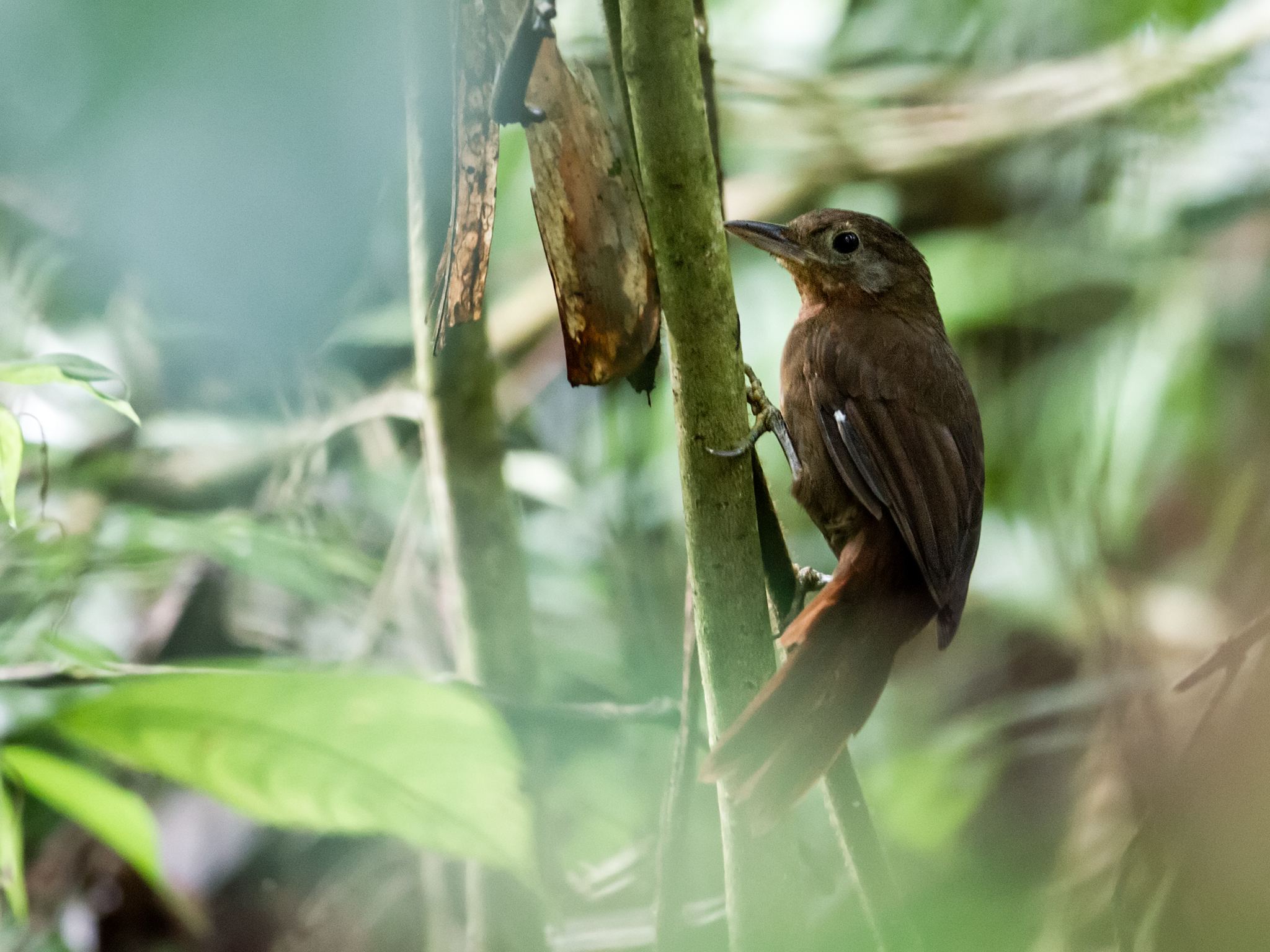 Ruddy Foliage-gleaner from WildSumaco Lodge, Napo, Ecuador.